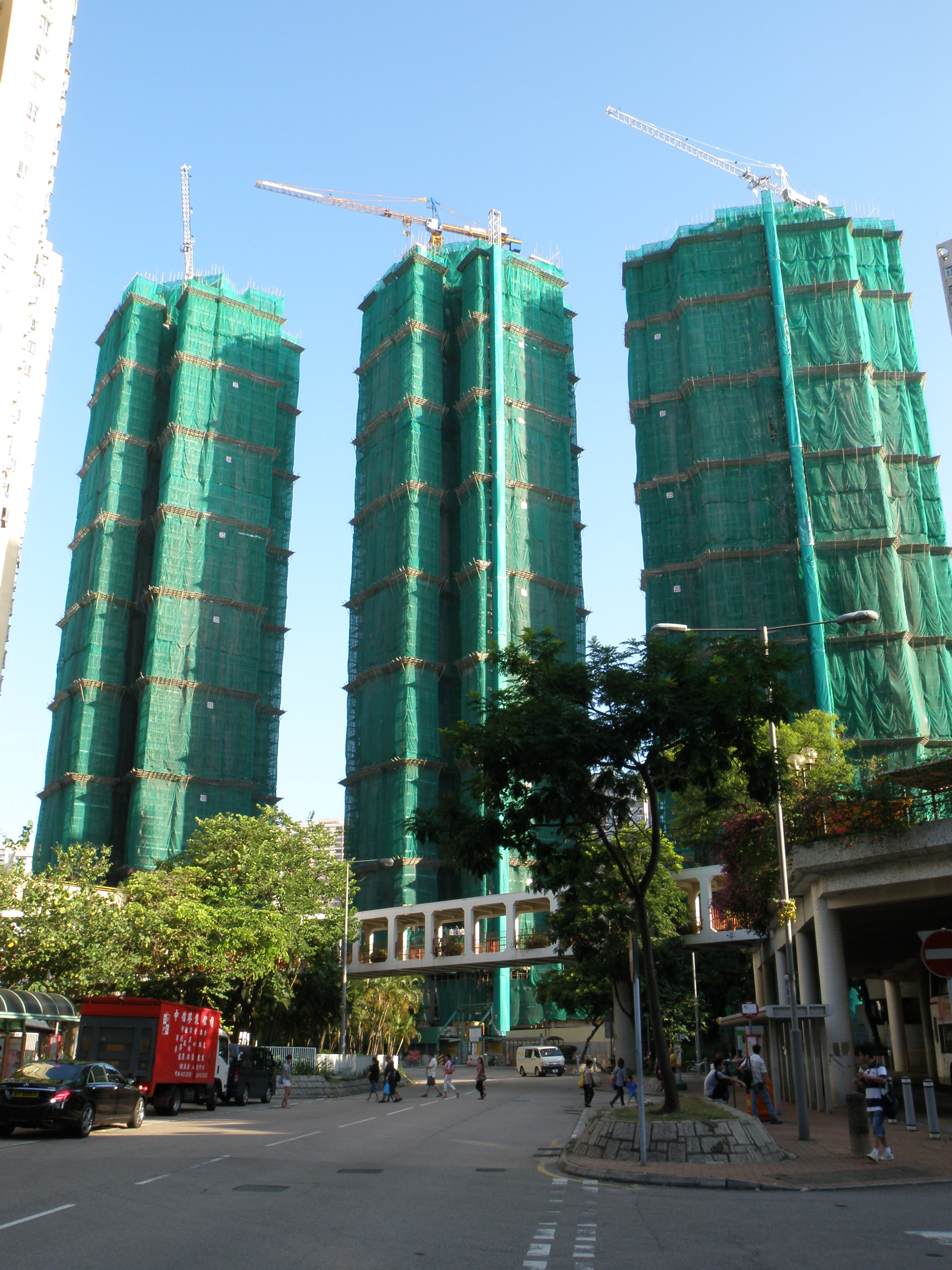 Hong Kong Greenview Villa under construction in August 2014.